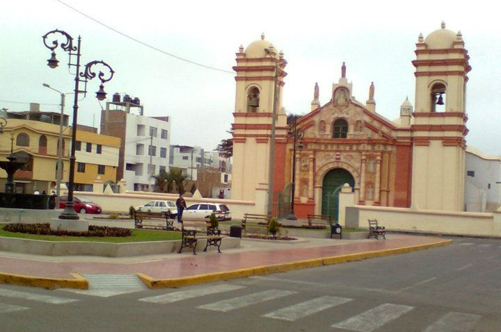 Iglesia de Huamán, en la Plaza mayor del histórico y tradicional pueblo de Santiago de Huamán, en el distrito de Víctor Larco de la ciudad de Trujillo